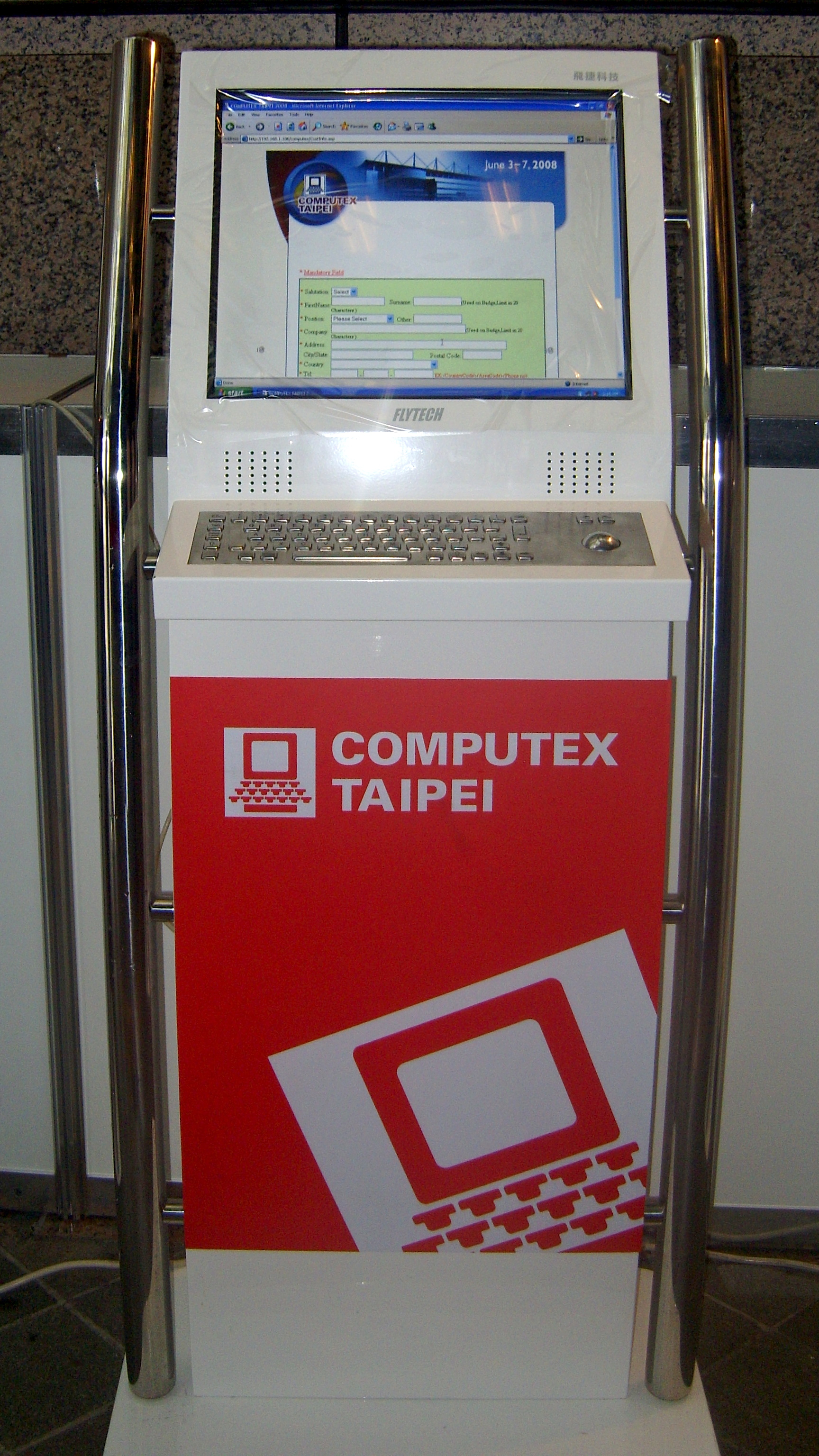 2008 COMPUTEX Taipei: Registration Kiosk.